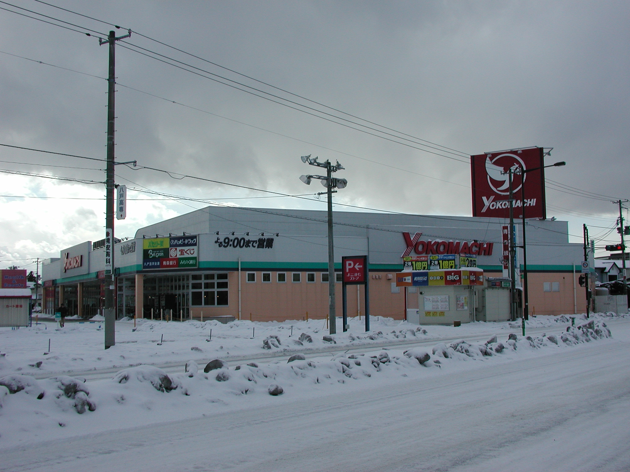 Yokomachi Store Ichibanchō Shops